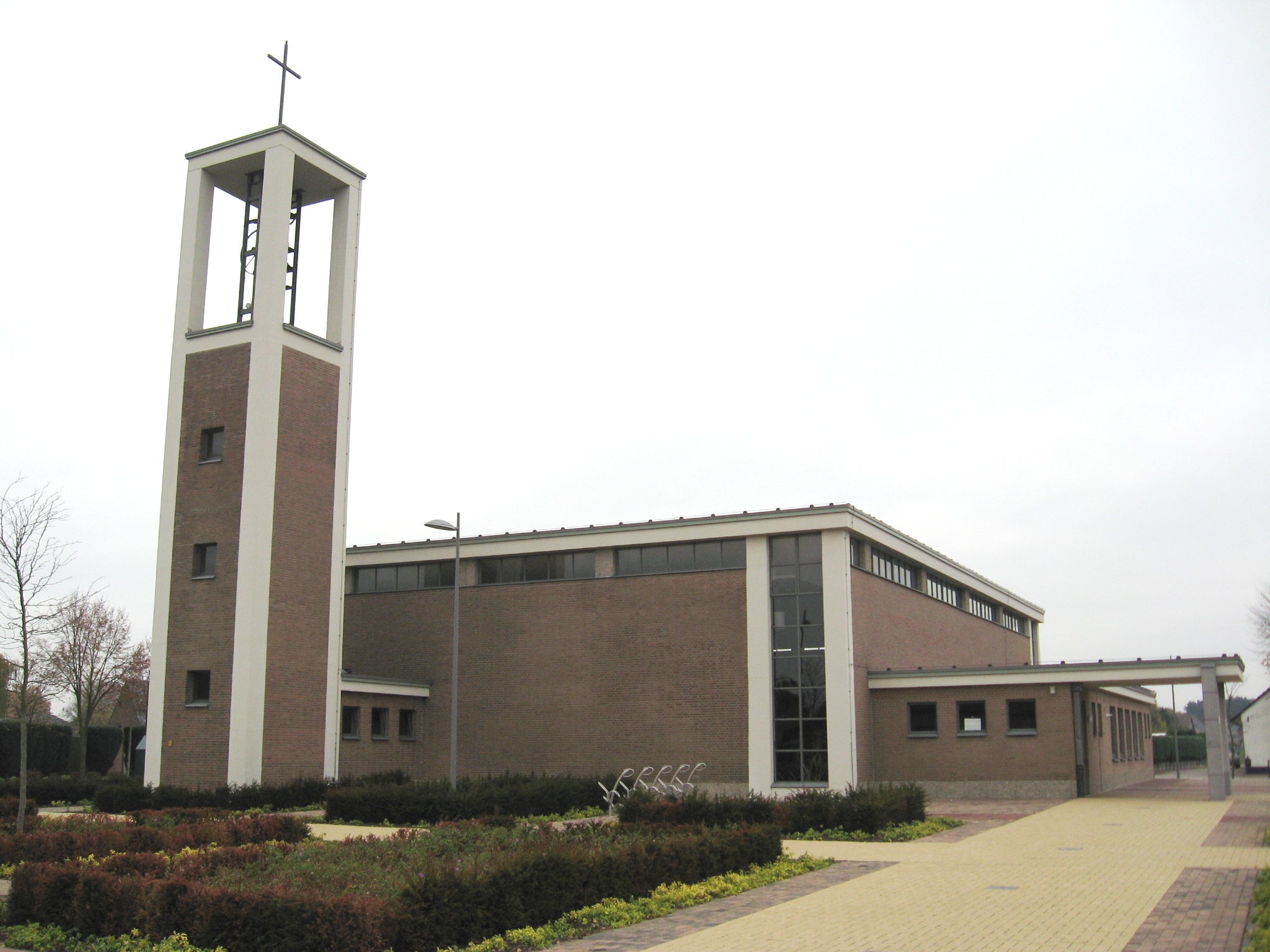 Church of Saint Joseph in Neerpelt (Boseind), Limburg, Belgium